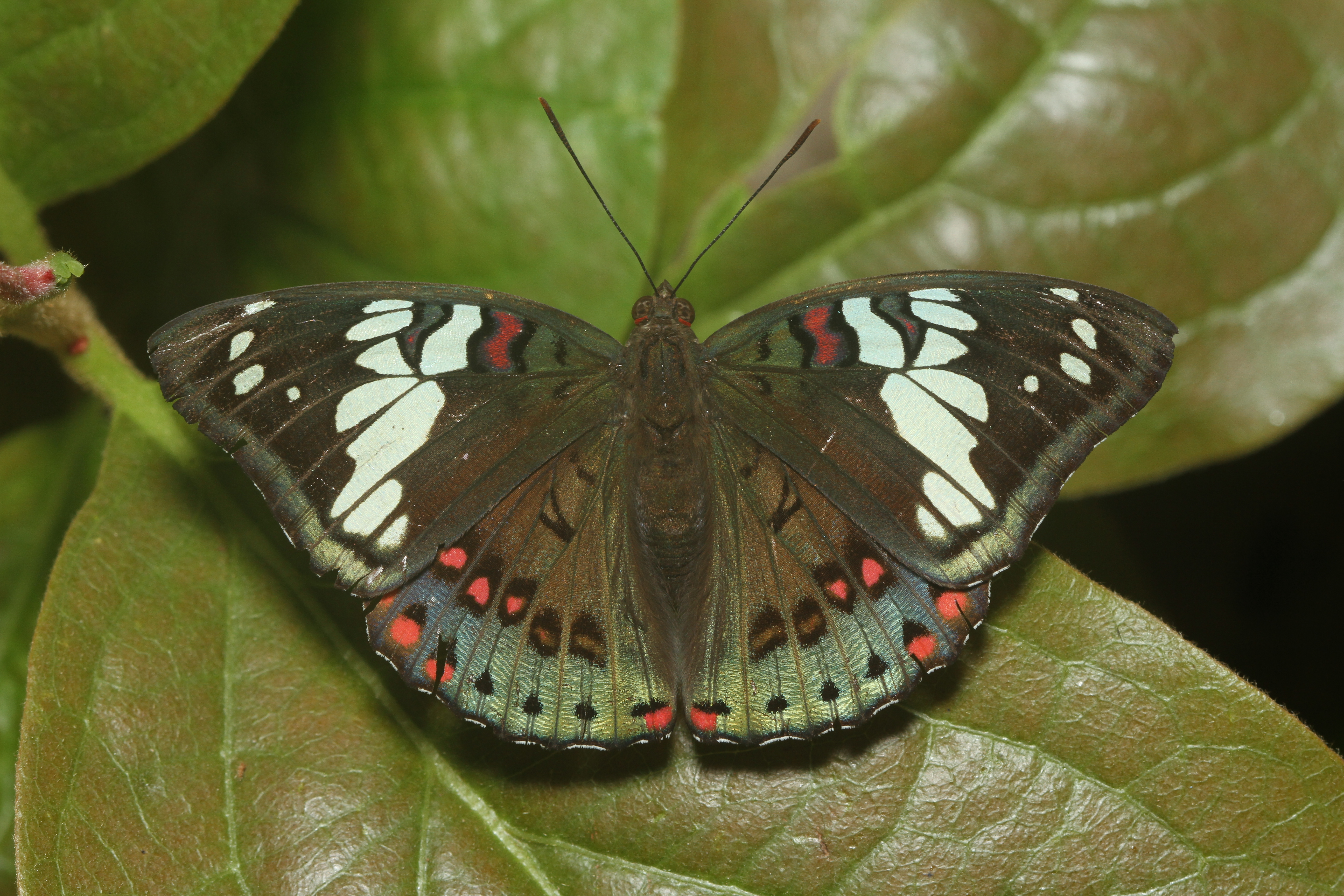 The Gaudy Baron (Euthalia lubentina) is a species of nymphalid butterfly found in South Asia and Southeast Asia.